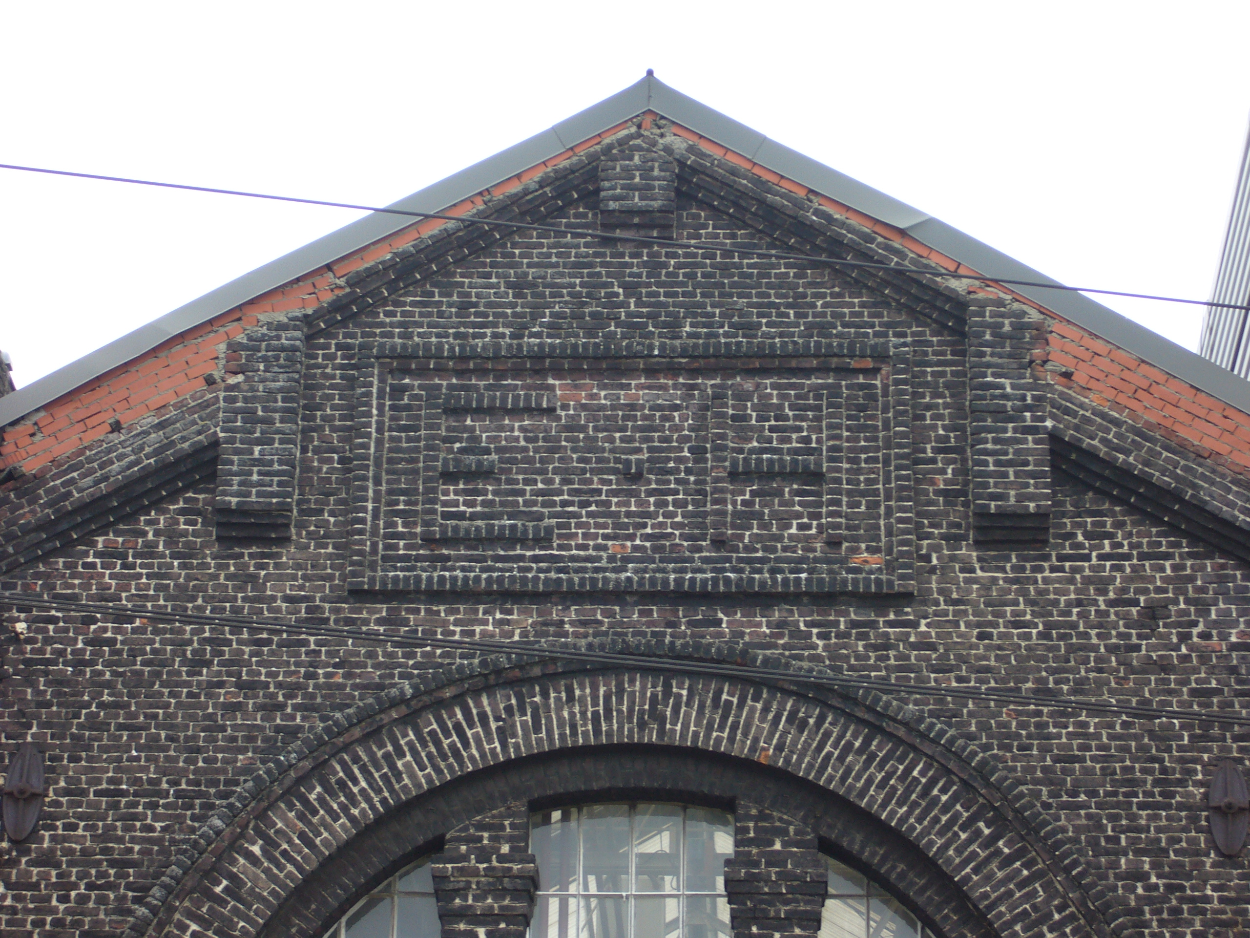 Detail of an old Électricité et Hydraulique building situated on the actual Alstom site of Marcinelle